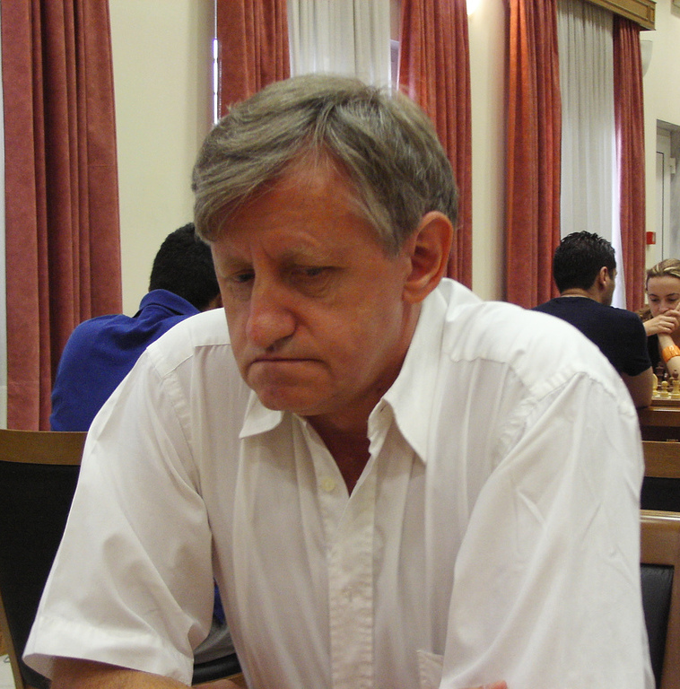 GM Oleg Romanishin (Ukraine), Kavala 2006